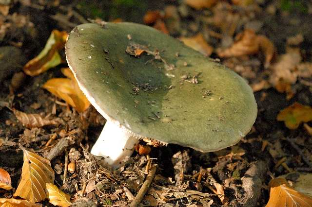 Russula heterophylla from Commanster, Belgian High Ardennes. The determination of the species shown in this picture has been verified.